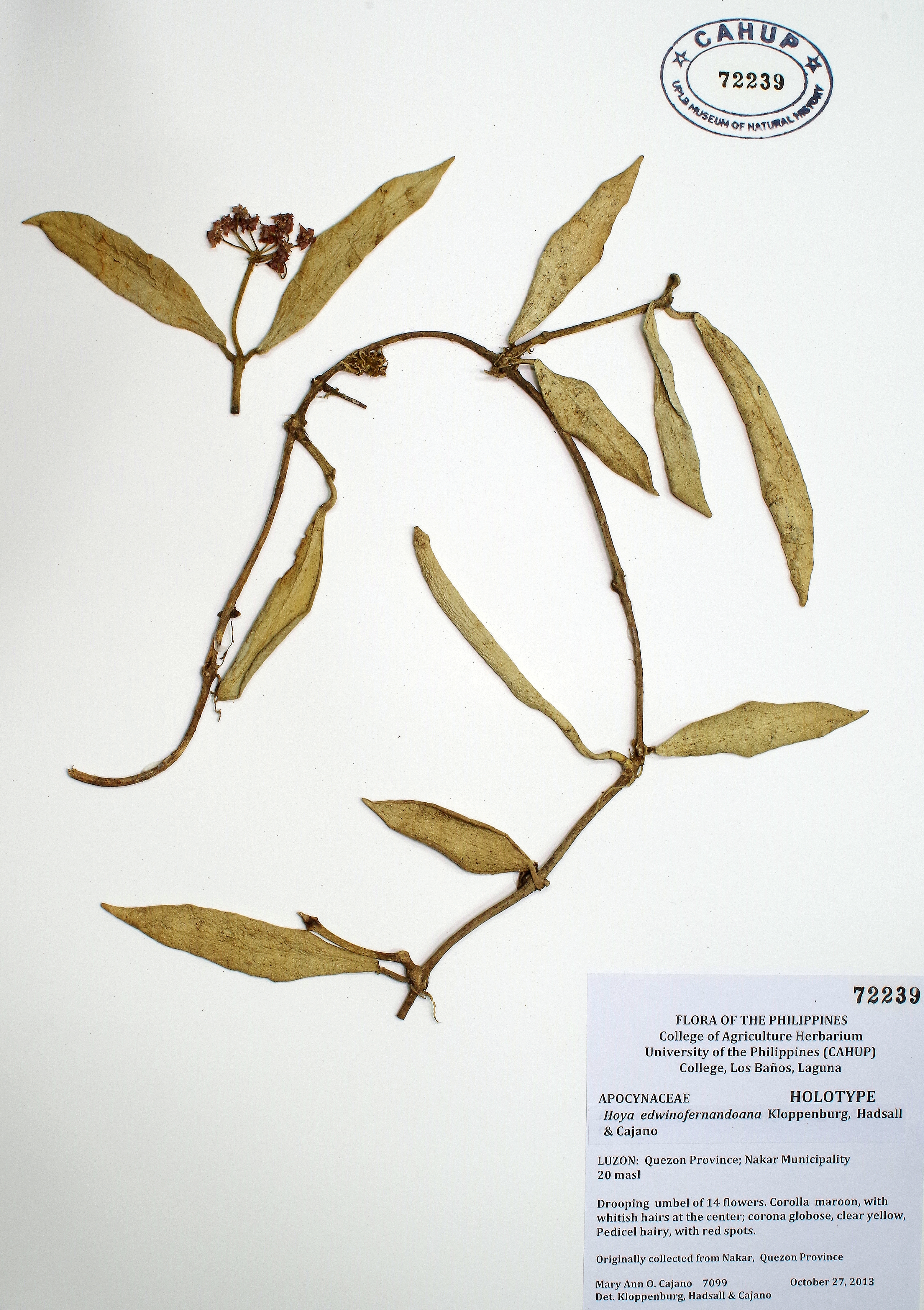 Photo of holotype specimen of Hoya edwinofernandoana